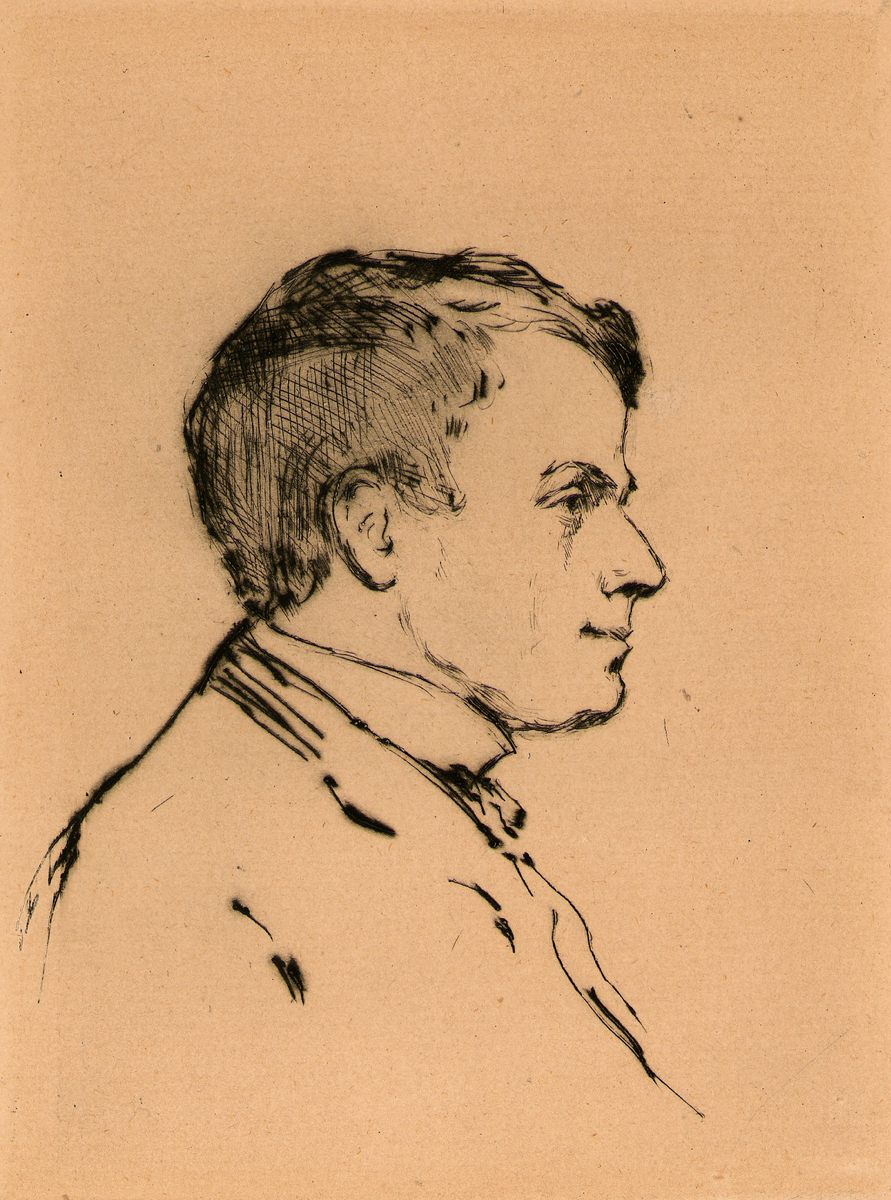 The Norwegian pianist and conductor Karl Nissen, portraited by Henrik Lund